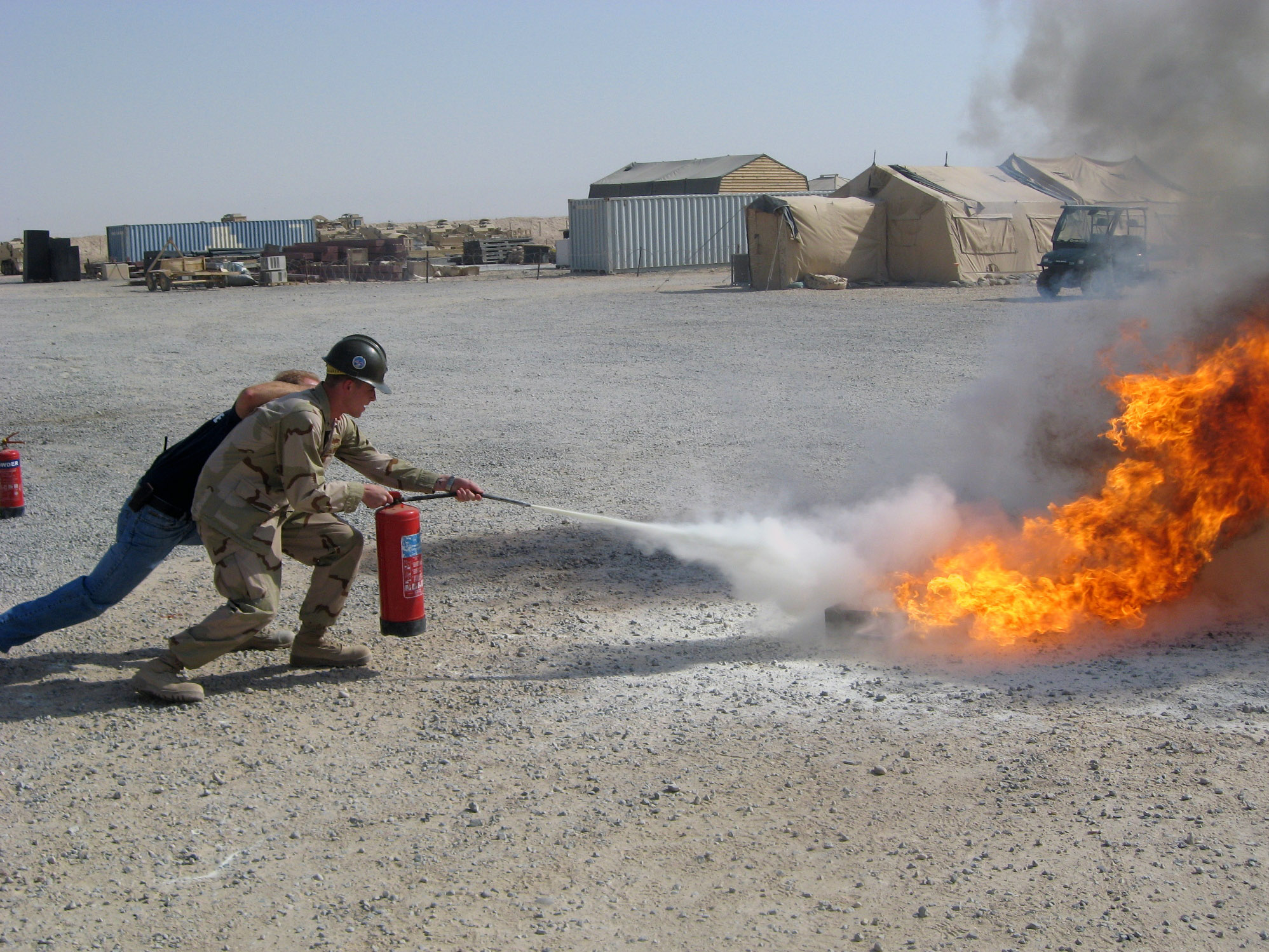 CAMP BUEHRING, Kuwait (Sept. 1, 2007) - Brad Truber, Camp Beuhring’s Fire Chief, watches and gives instruction as a Seabee, assigned to Naval Mobile Construction Battalion (NMCB) 40, practices fire fighting with a fire extinguisher during a controlled training evolution. U.S. Navy photo by Steelworker 3rd Class Jessica Pearson (RELEASED)